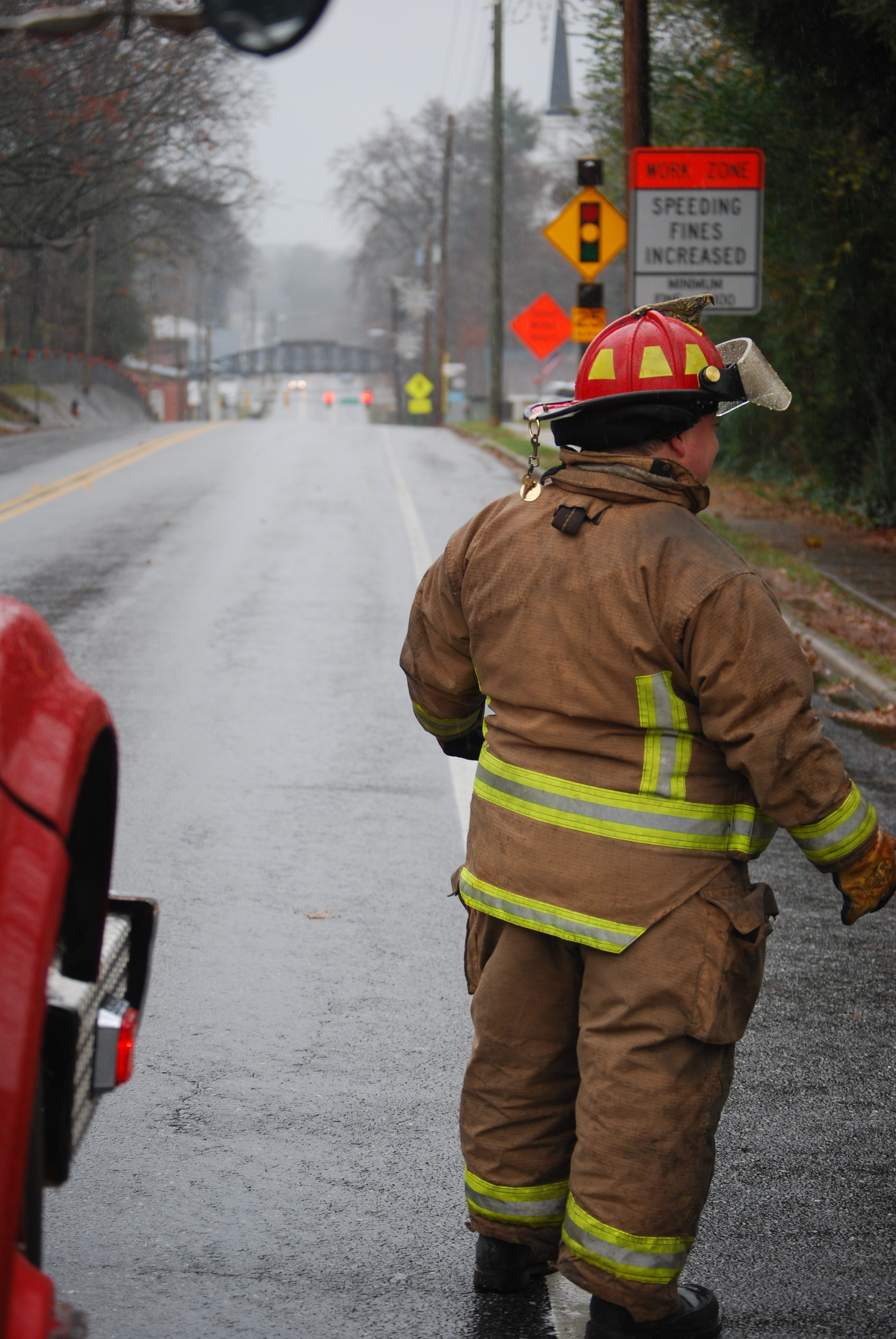 A volunteer firefighter in Demorest Georgia